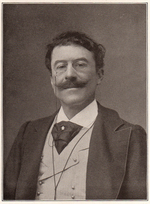 Joseph Uzanne, photo portrait.